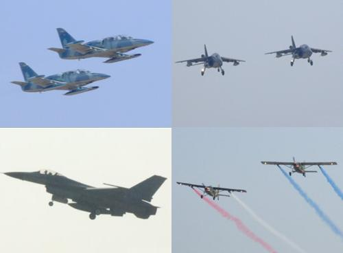 An Airborne photo of L-39ZA/ART, Alphajet A, F-16A, and AU-23A during air show in children's day 2007.(Photo By Analayo Korsakul)